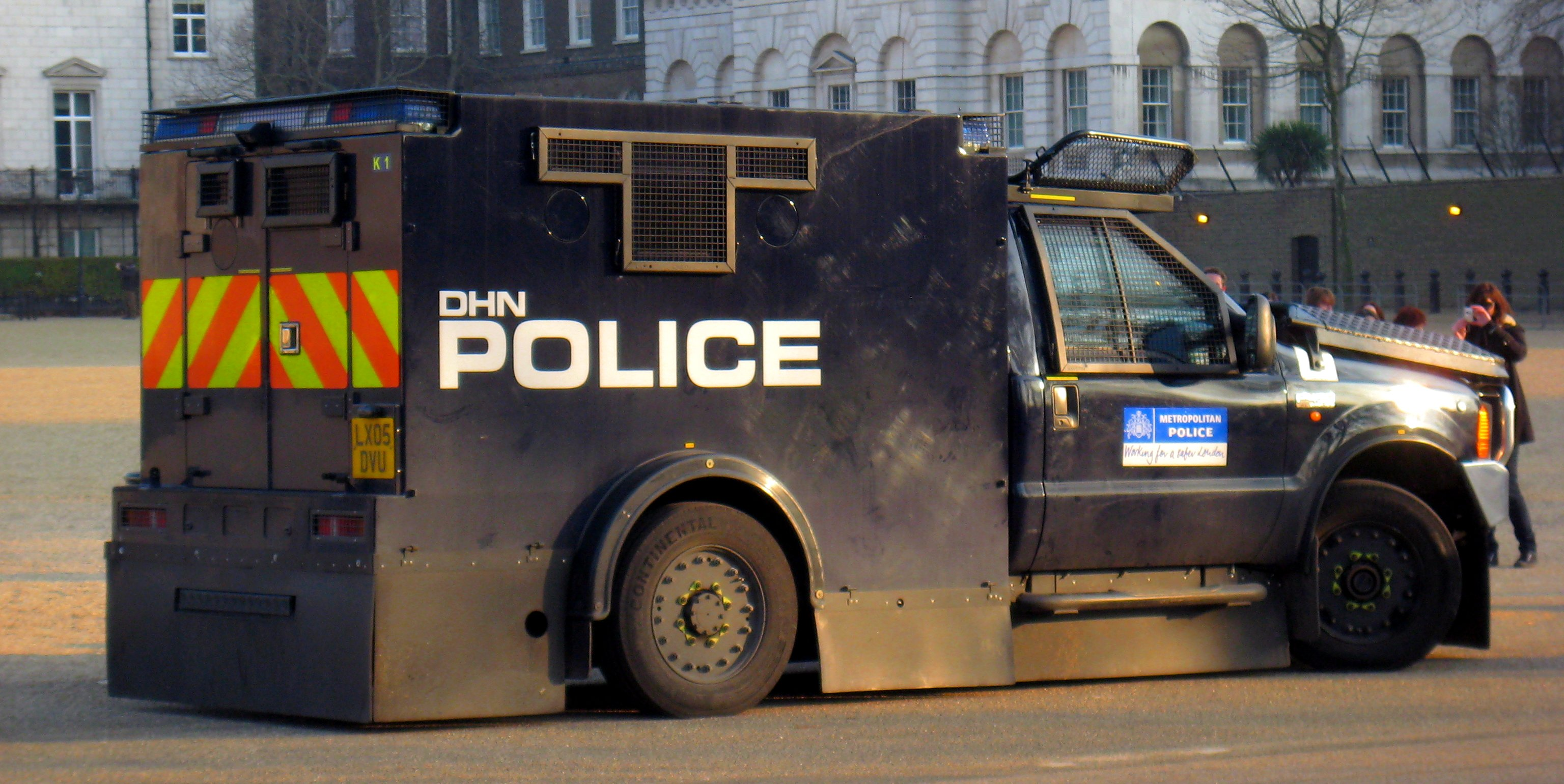 Armoured Jankel Guardian Armed Police Vehicle